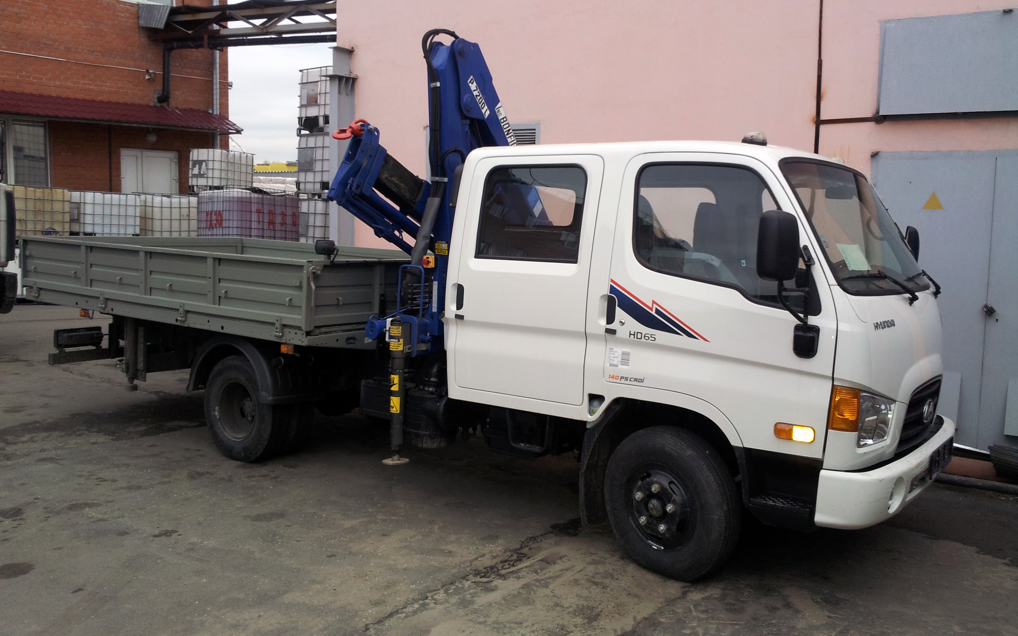 Hyundai HD65 with a hydraulic crane